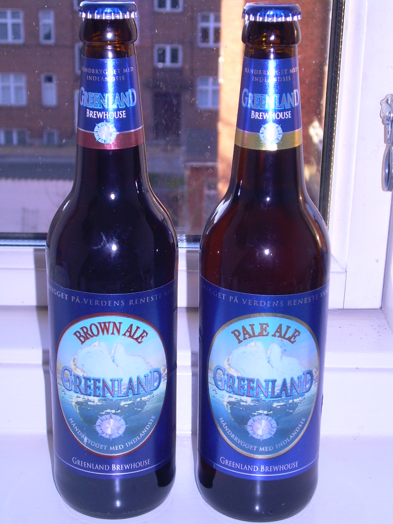 Photo of beers from Greenlang Brewhouse